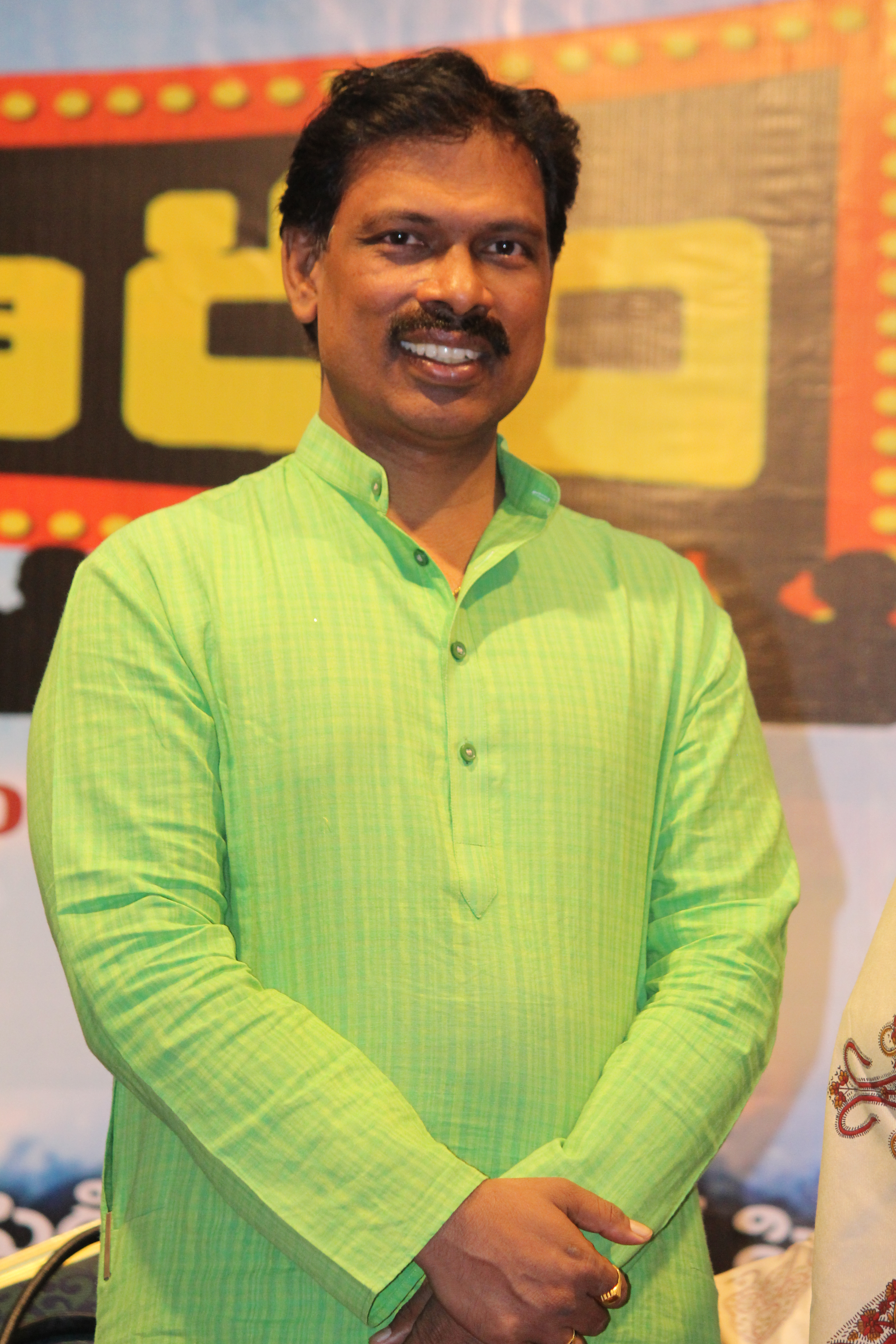 Harikrishna Mamidi